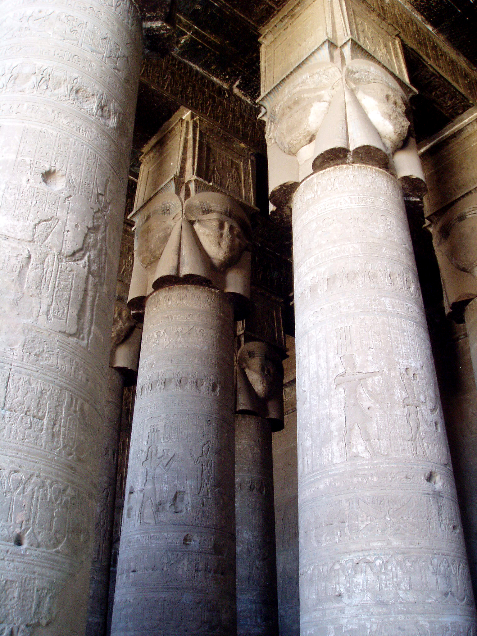 View into the temple of Dendera, Egypt